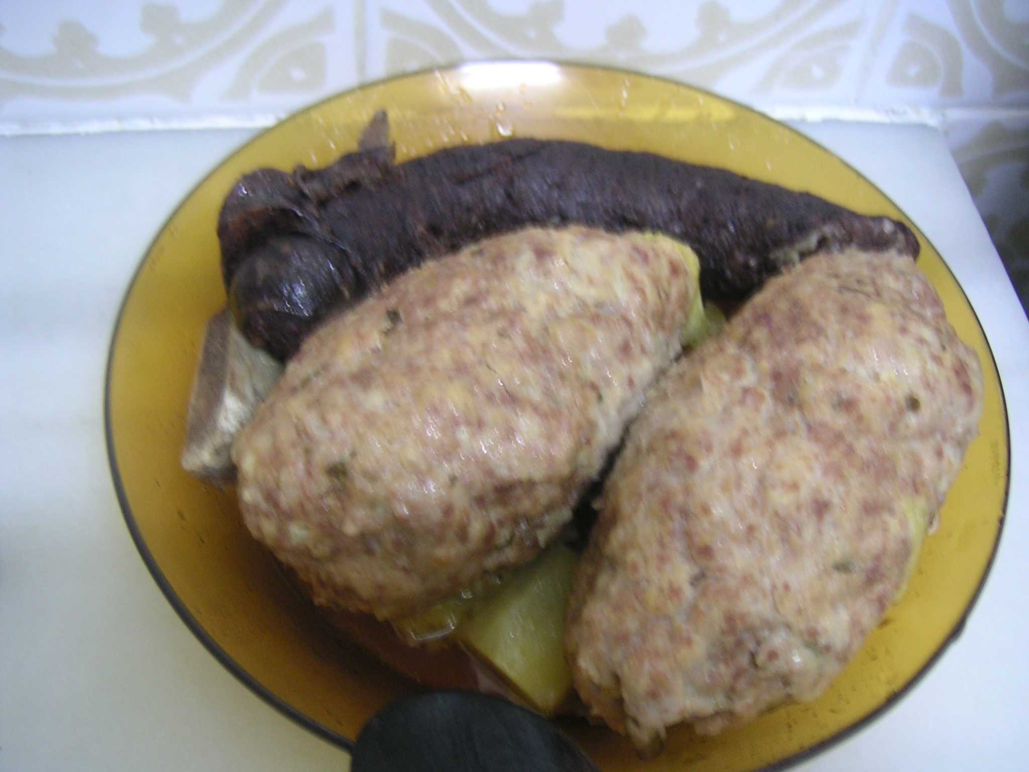 In Catalonia, we have a special stew named "escudella", made with different meats, bones and vegetables. After the stew, we usually eat boiled meat, called "carn d'olla", which always includes a "pilota", a sort of an oval meatball made of a mixture of chopped meat, garlic, parsley etc. Here you can see two "pilotes". As this takes a long time to cook, nowadays it has becomed a dish for special days, usually for Christmas lunch, on December 25th. The next day, one usually eats "canalons" made with "carn d'olla" leftovers.